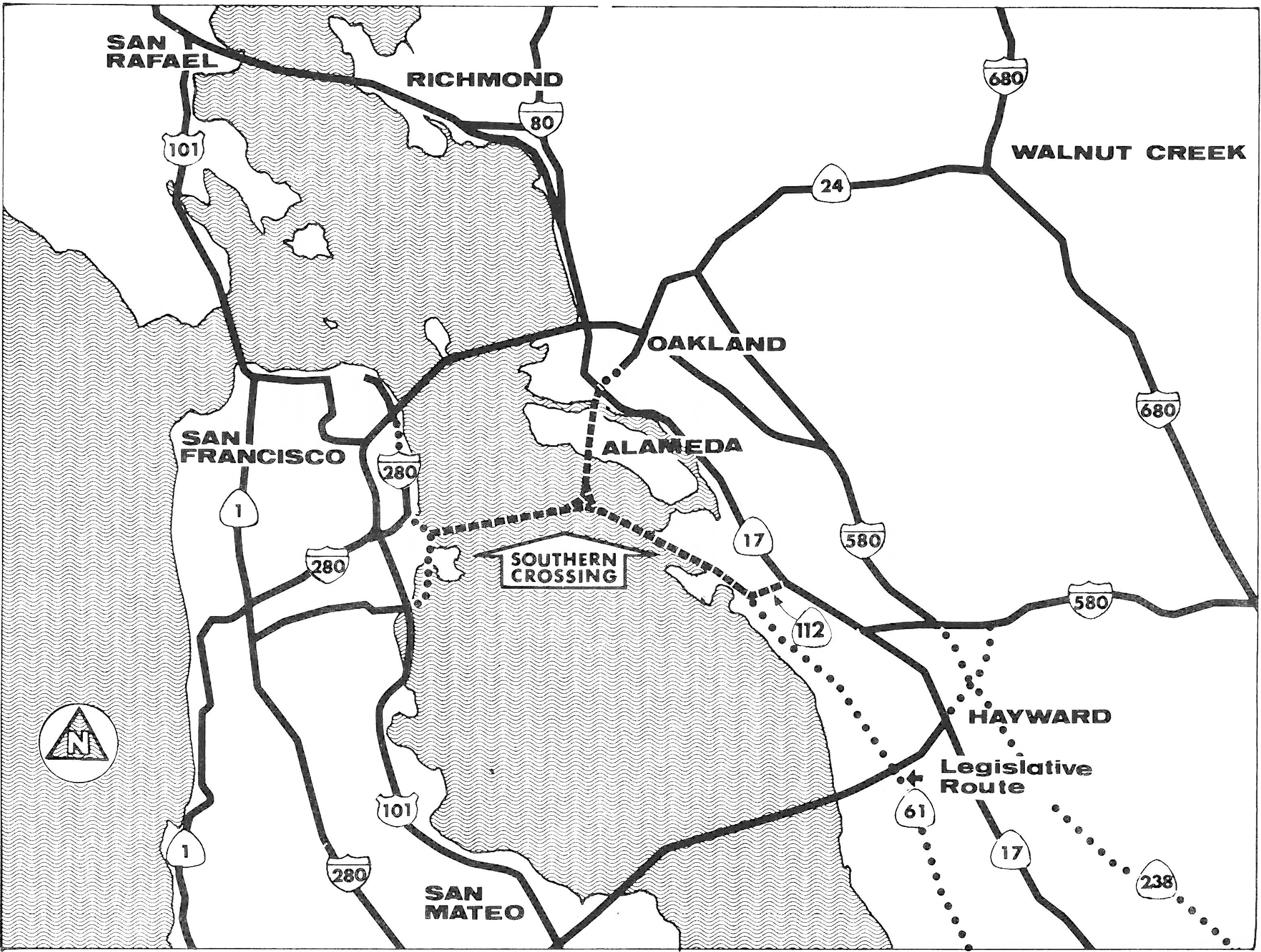 Alignment initially proposed in 1962 and chosen after the 1966 report for the Southern Crossing. Spans India Basin to Alameda and Bay Farm Island